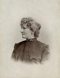 Teodora Krajewska, one of the first physicians in Bosnia and Herzegovina